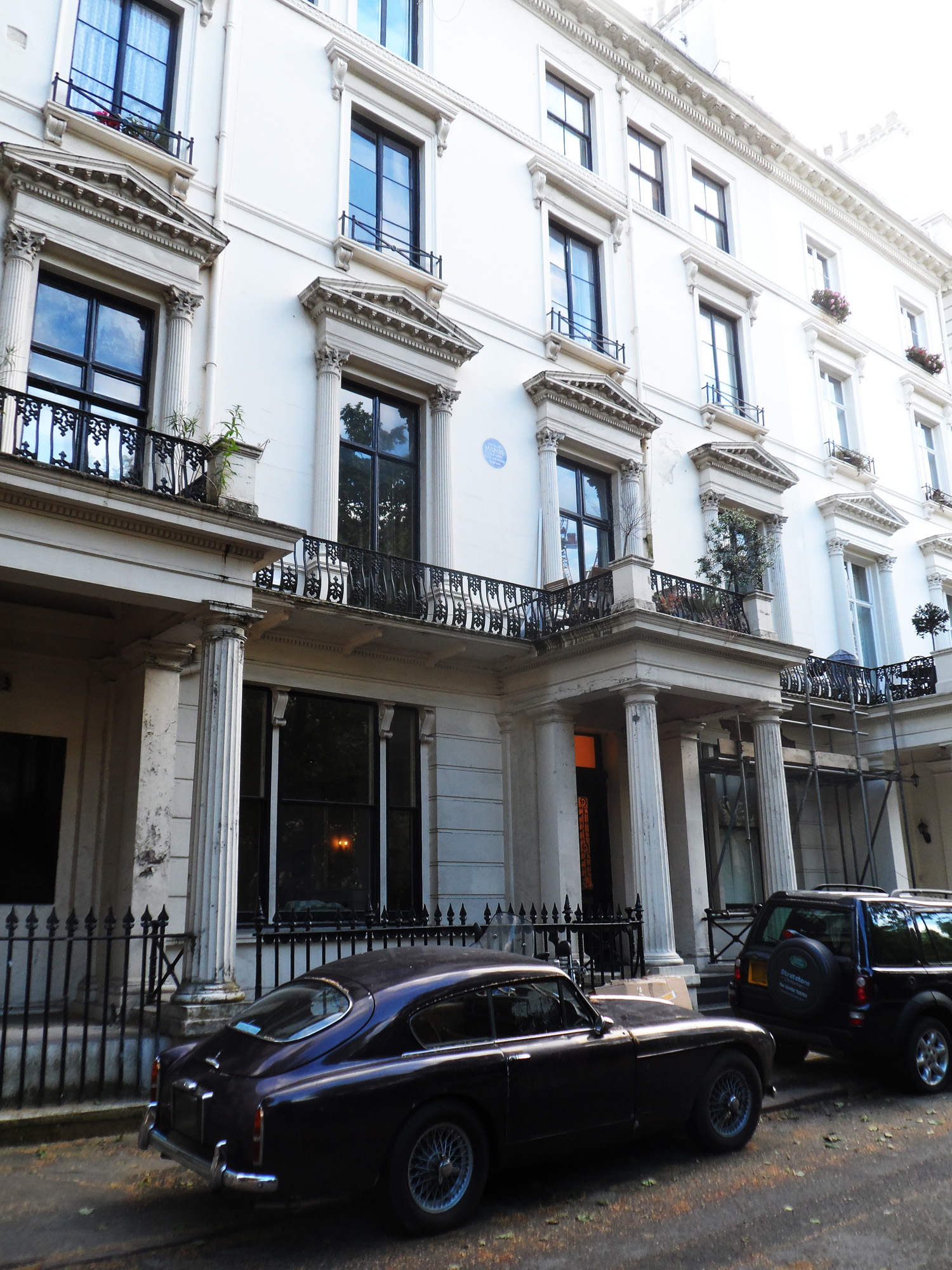 CHARLES MANBY 1804-1884 CIVIL ENGINEER lived here